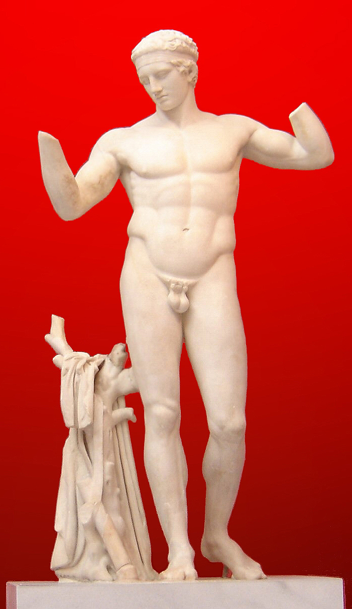 Diadumenos, National Archaeological Museum of Athens